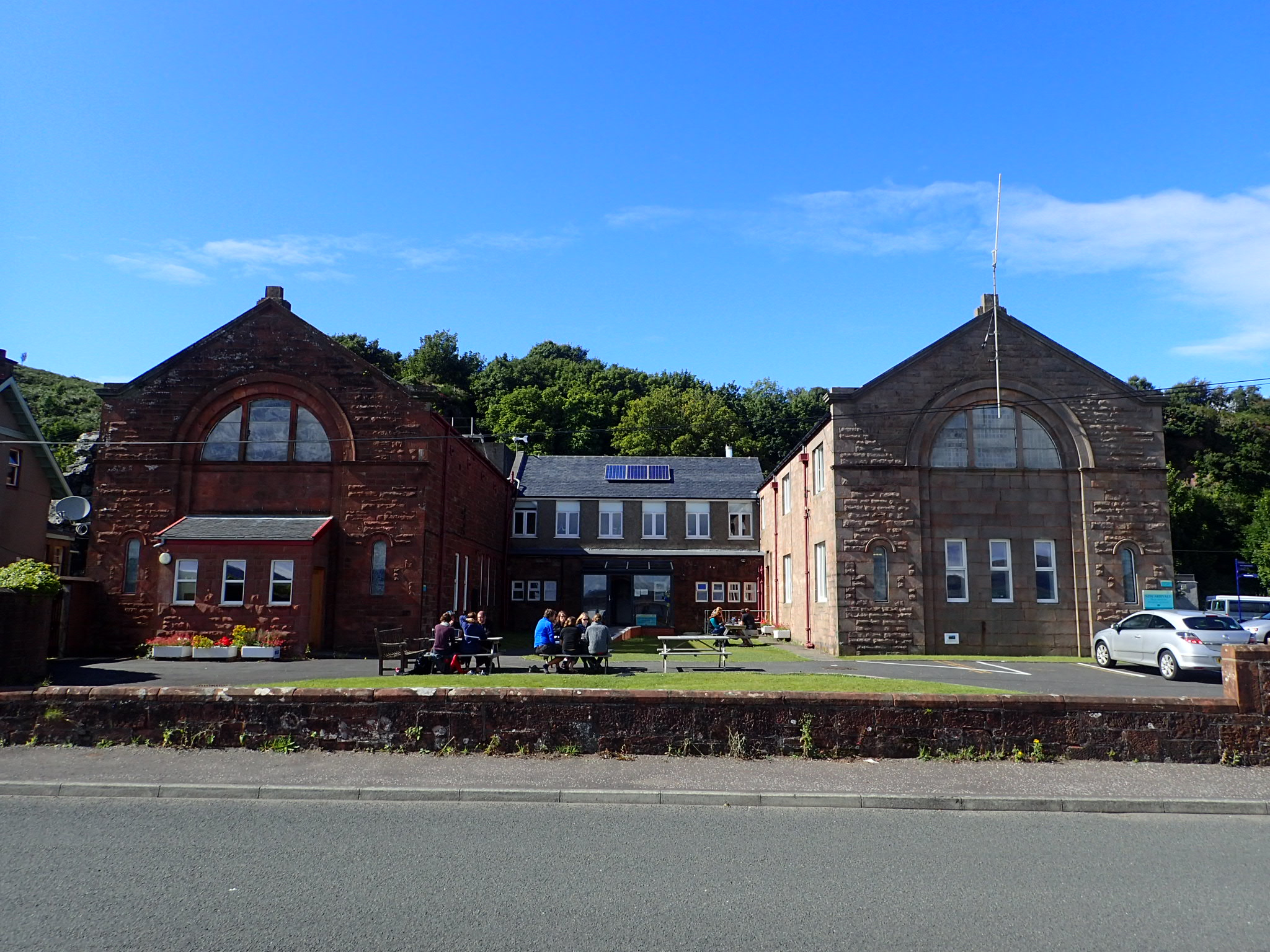 Main buildings at FSC Millport